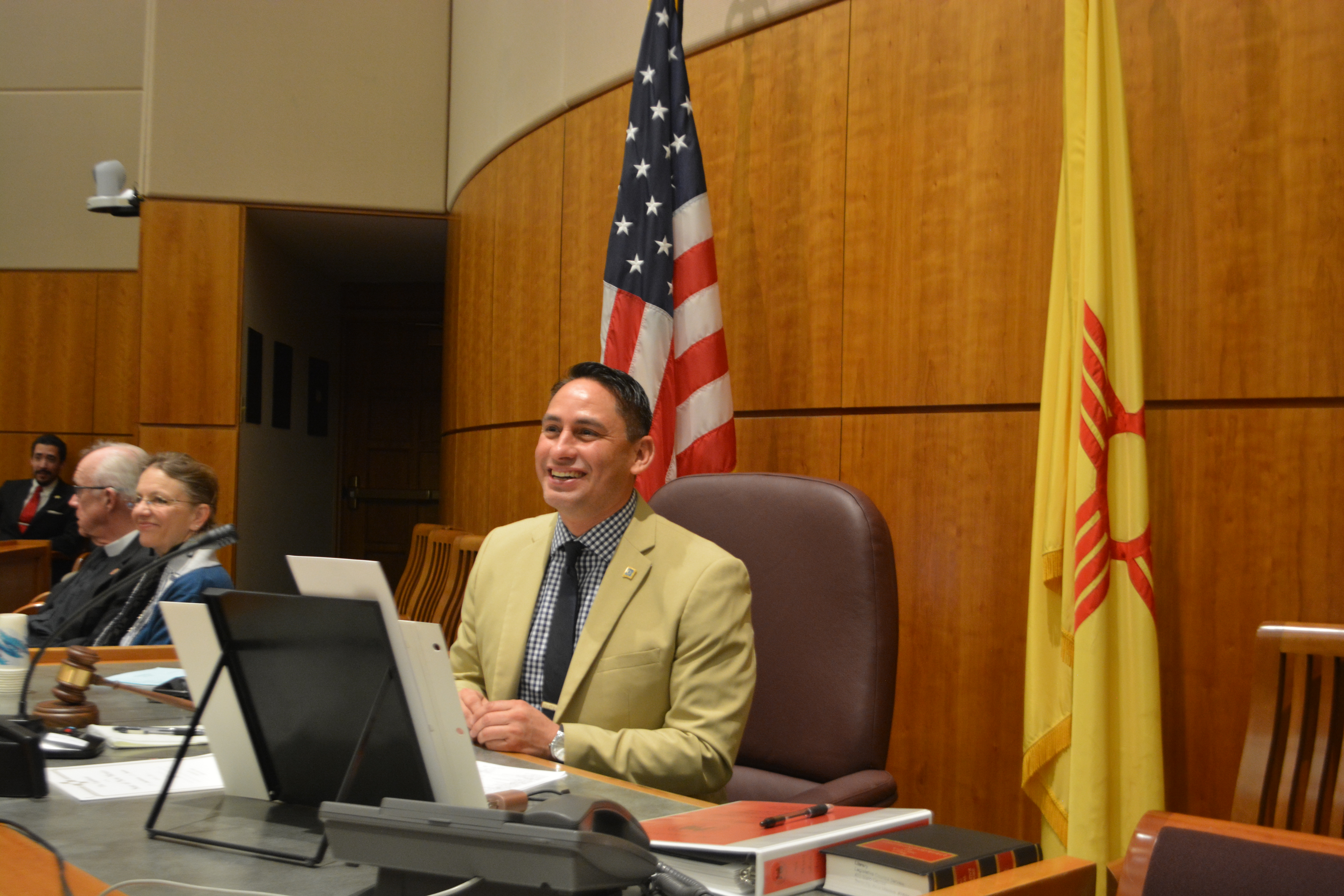 When the New Mexico Senate meets in session, Lieutenant Governor Howie Morales presides.